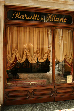 It was remodelled about three years ago but luckily they changed very litte.